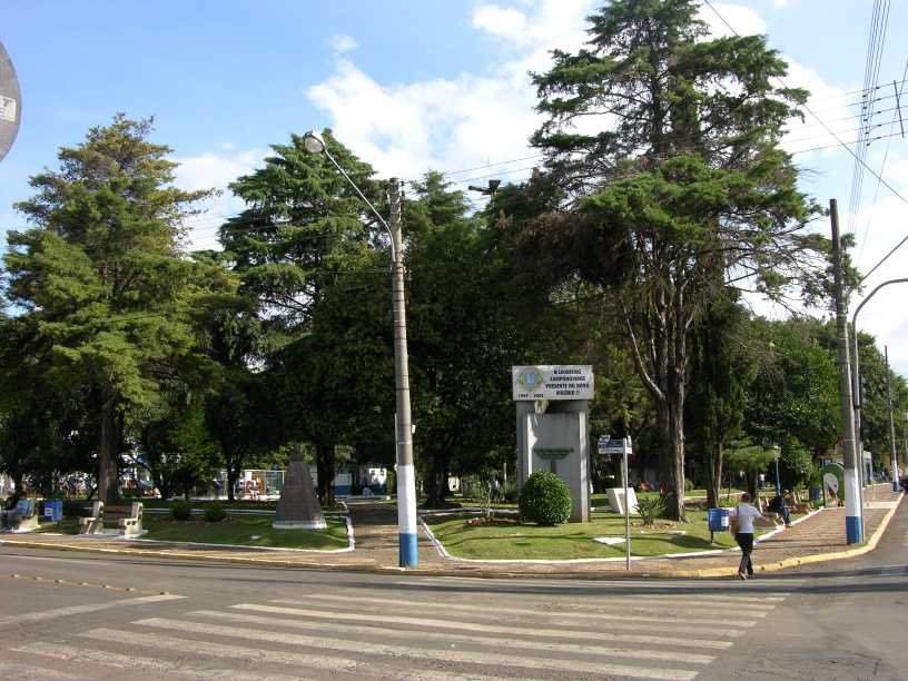 Praca Lauro Mueller no Centro de Campos Novos, SC